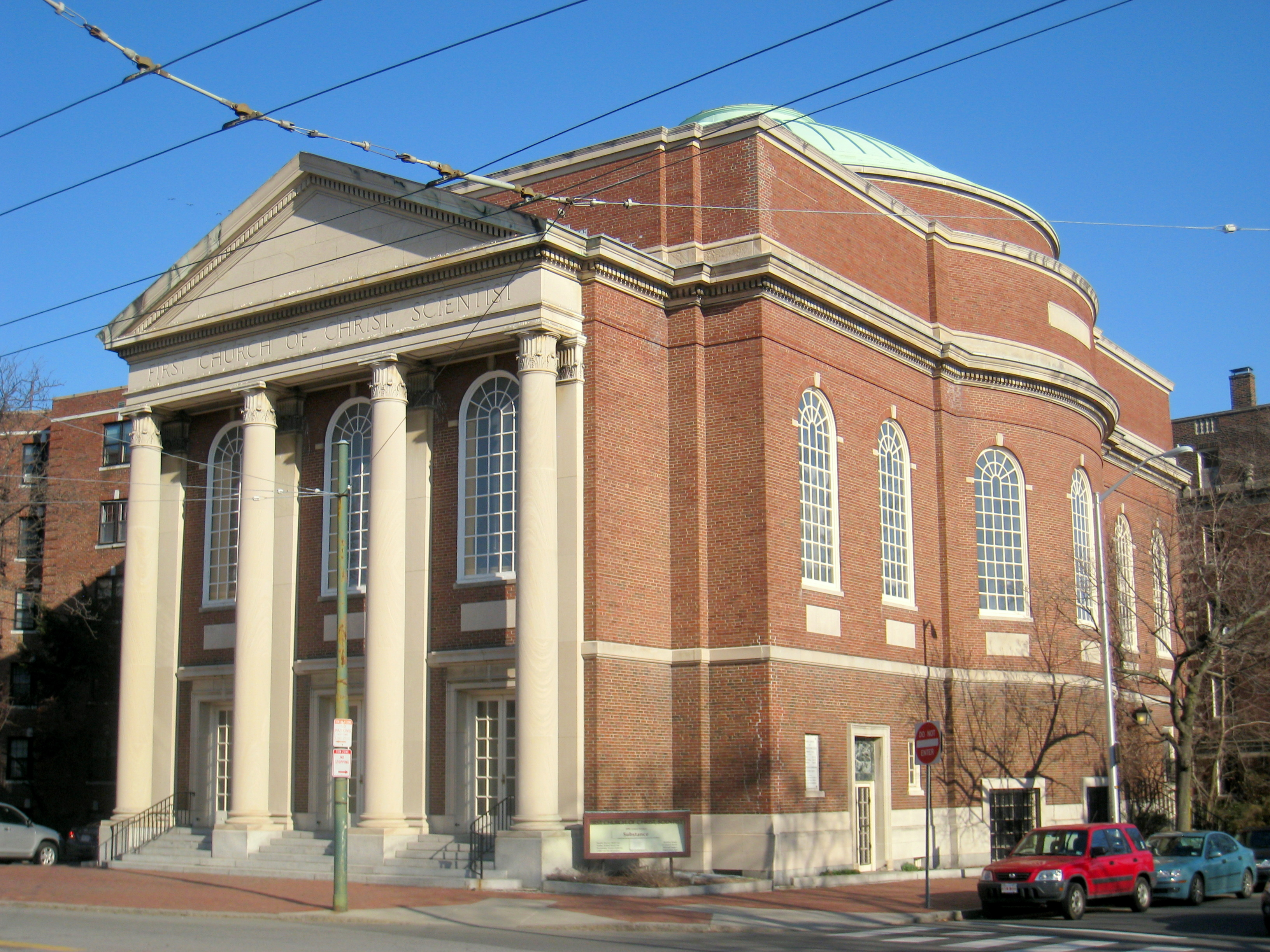 First Church of Christ, Scientist - 13 Waterhouse Street, Cambridge, Massachusetts, USA. I took this photograph.